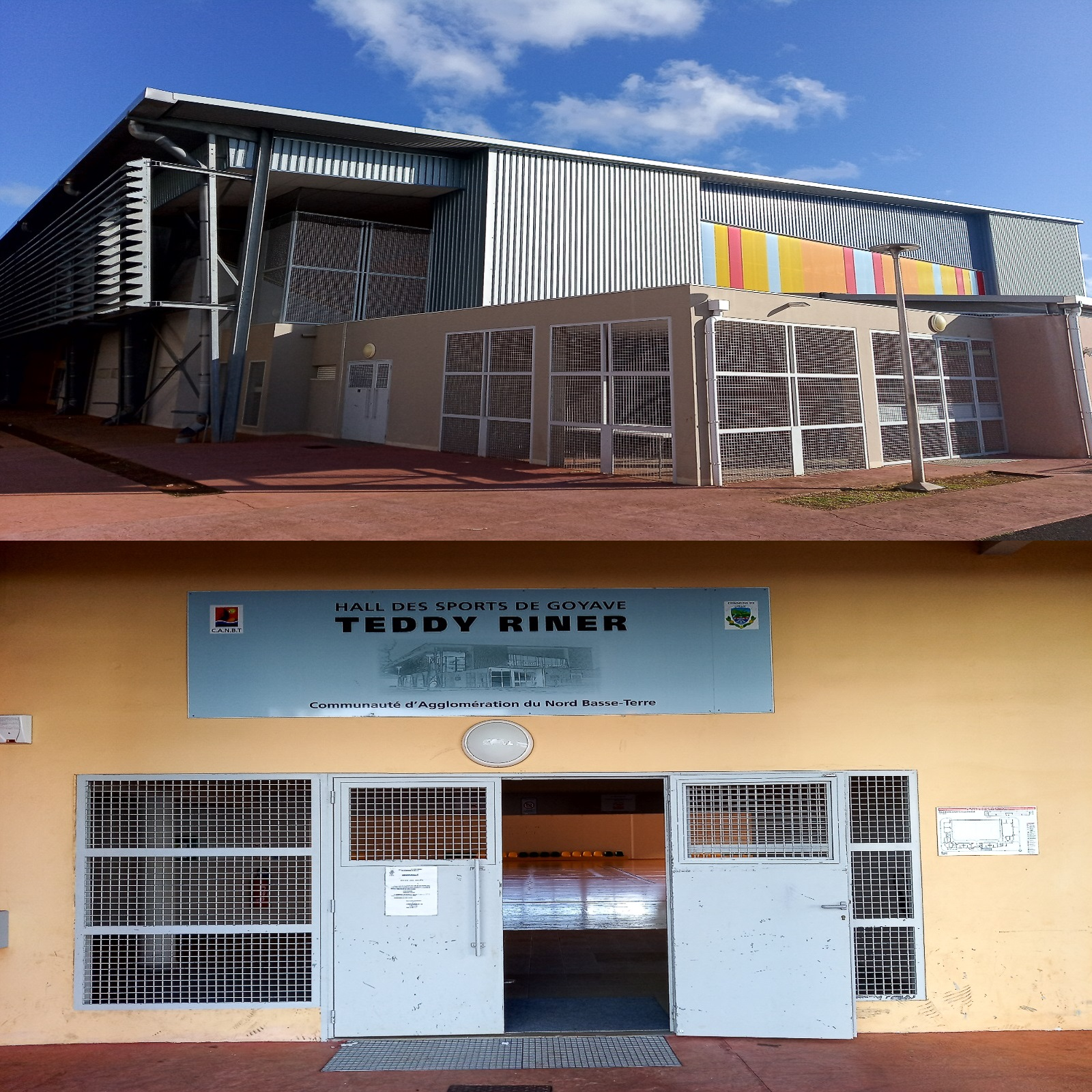 Outside the Goyave Sports Hall